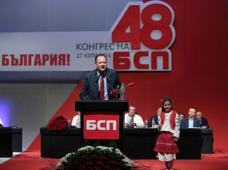 Председател на БСП, 48-ми Конгрес